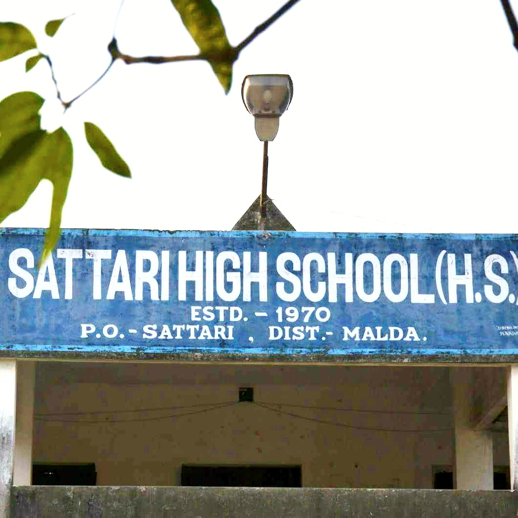 Sattari High School Front